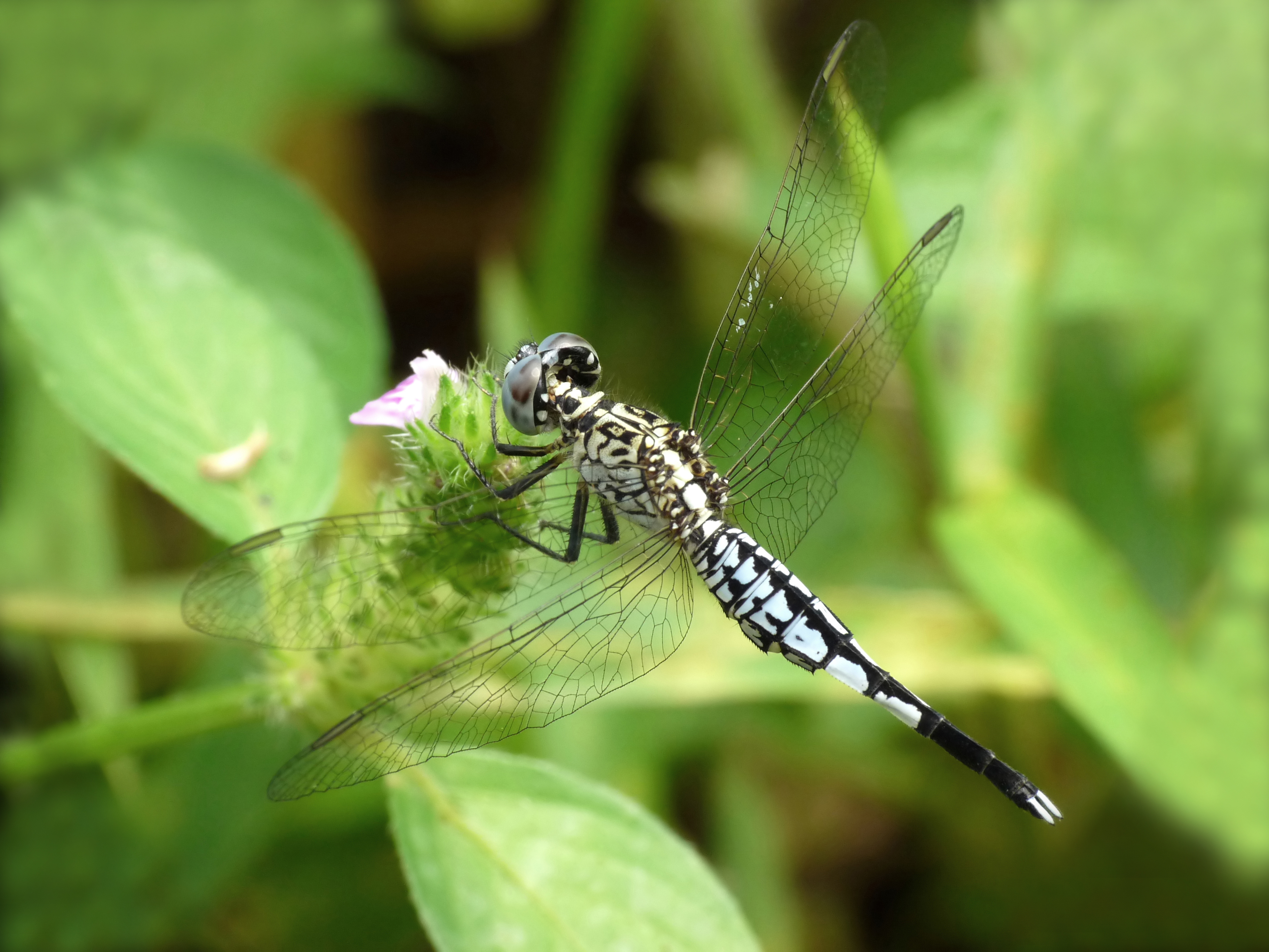 Acisoma panorpoides, male Acisoma panorpoides, the Grizzled Pintail or Trumpet Tail, is a species of dragonfly in family Libellulidae. It is small blue dragonfly with bulged abdomen, closely associated with water, commonly found among reeds in ponds and tanks. The male adult has blue marking but the female has yellow marking. The species has a very weak and short flight. Breeds in marshes associated with tanks and ponds. Taken at Kadavoor, Kerala, India.